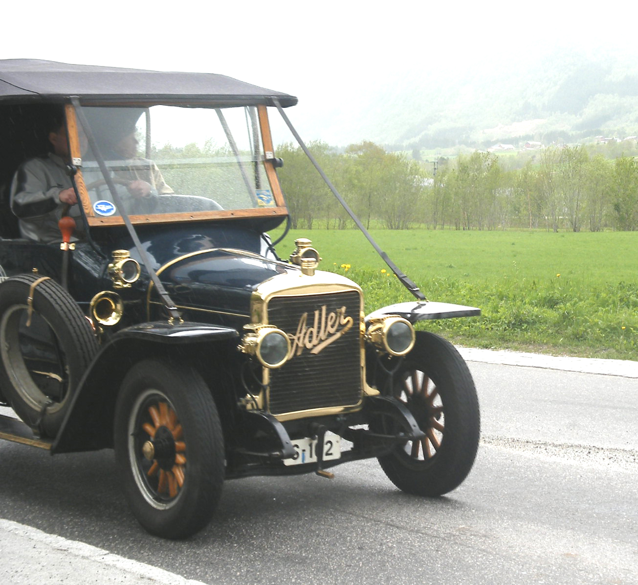 Old bus from Norway. ADLER 1913 car. Firda billag.